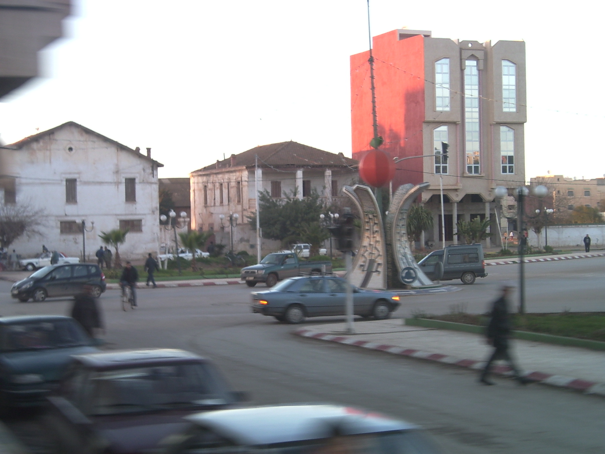 Berkane Place